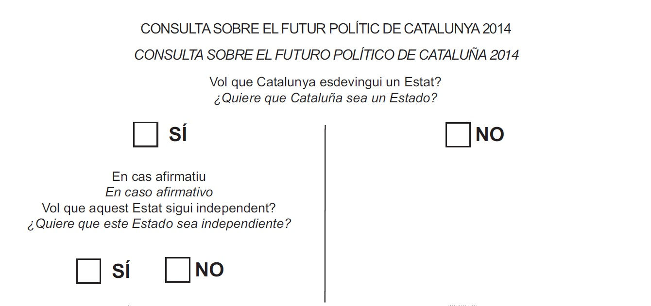 Catalonia independence voting slip query.